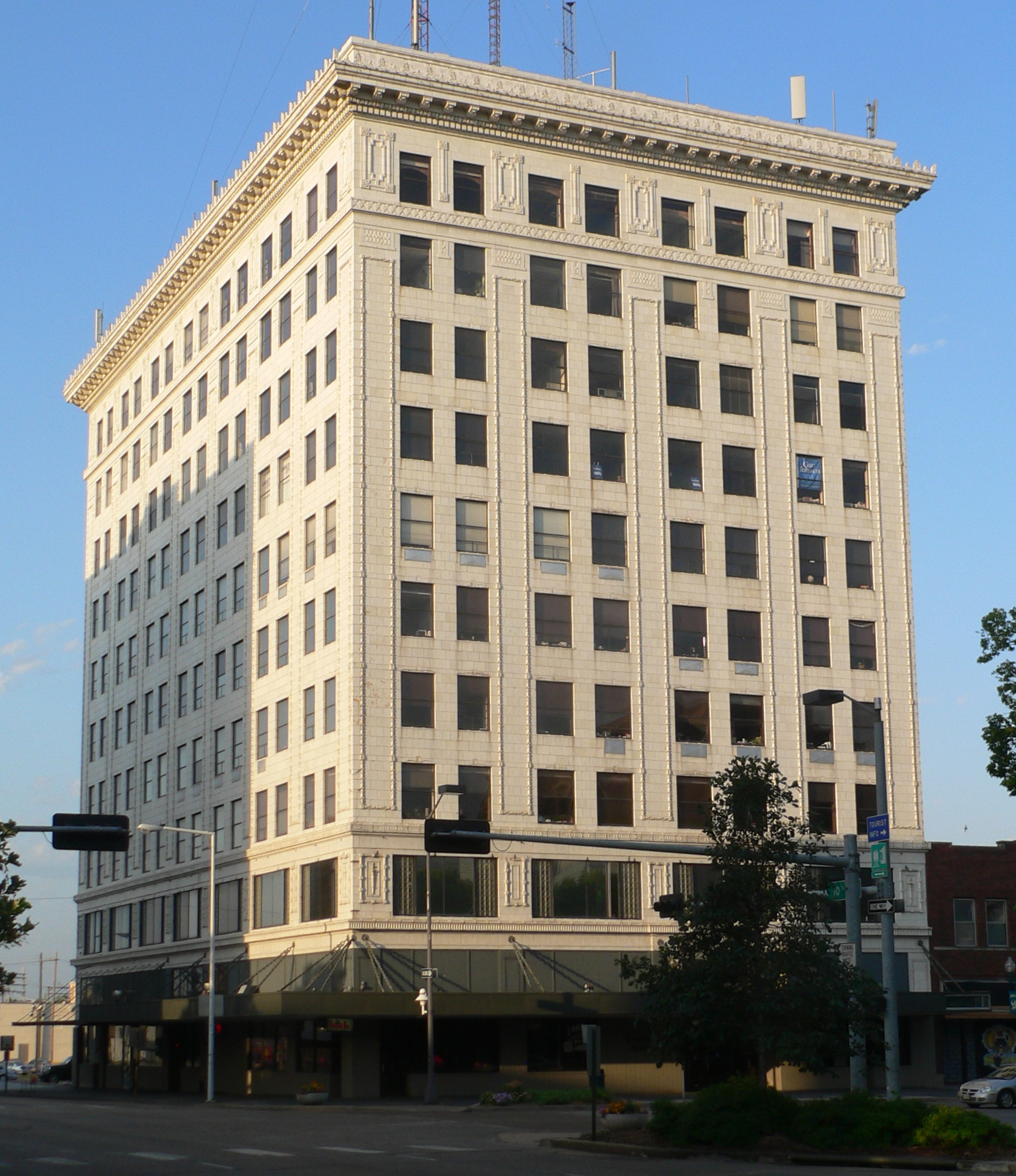 Terminal Building, located at 947 O Street (southwest corner of 10th and O) in Lincoln, Nebraska; seen from the northeast.